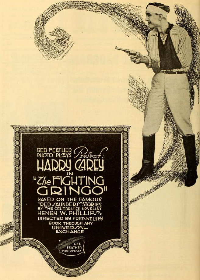 Advertisement in Moving Picture World